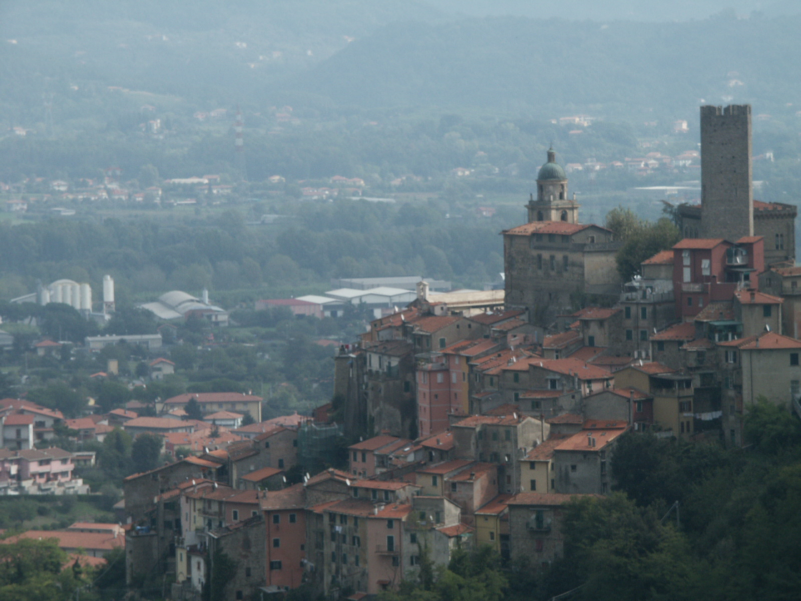 The Arcola village in the province of La Spezia